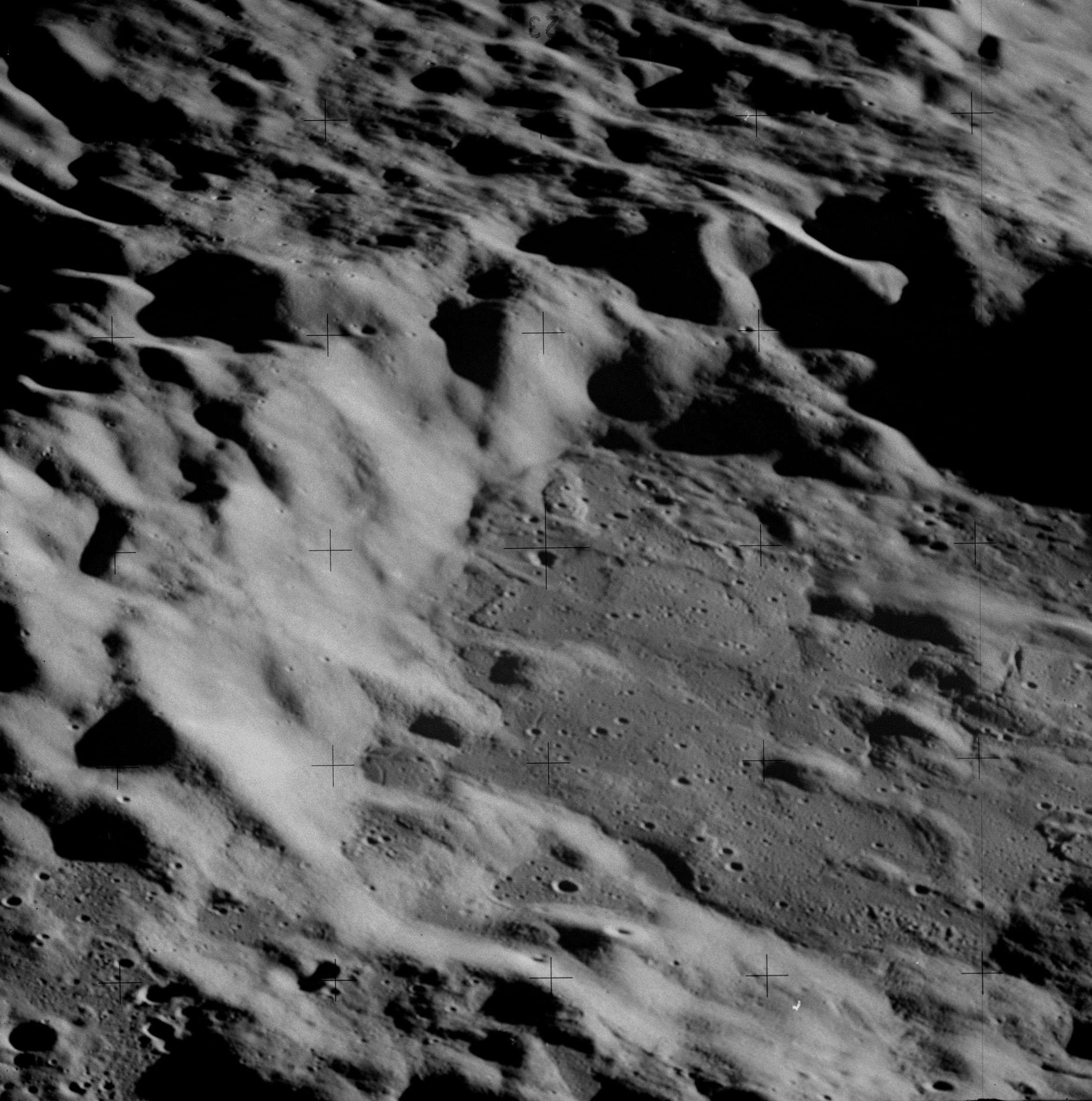 Oblique view of Waterman, on the far side of the moon.